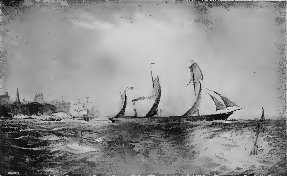 SS John Bowes, the first iron screw collier, built by Palmers Shipbuilding and Iron Company of Jarrow, England, and launched in 1852. From Dillon (1900), p. 17.